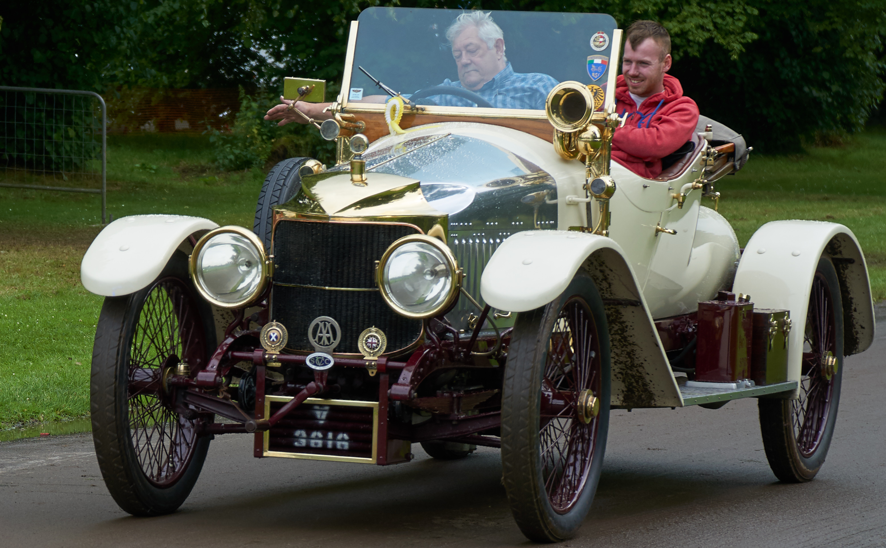 Prince Henry Vauxhall SVVC Extravaganza 2016